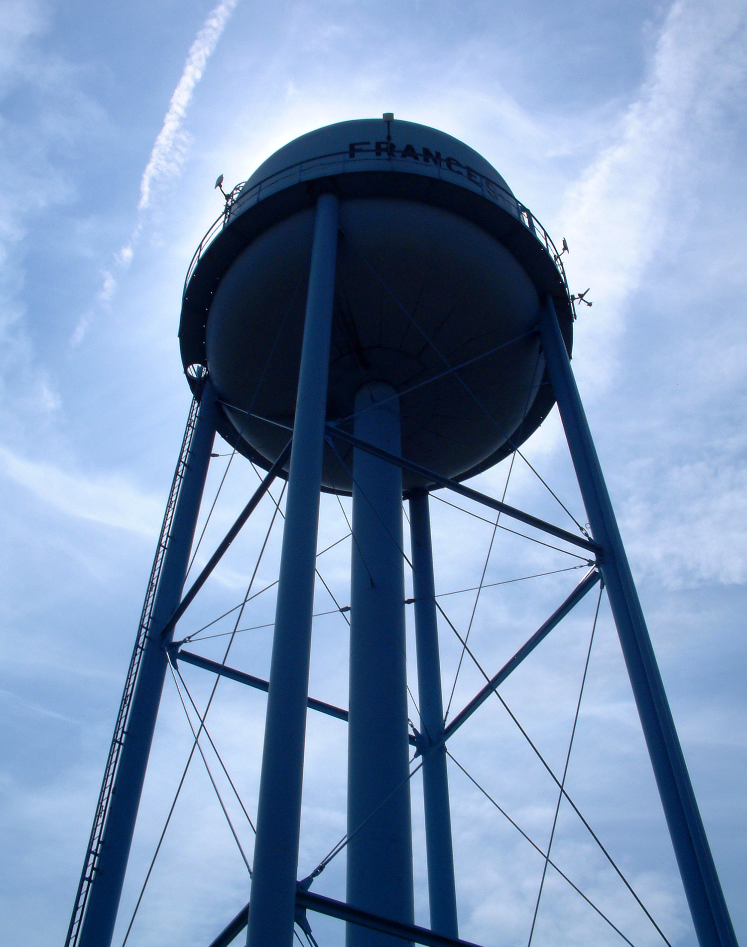 Looking up at the water tower in the town of Franceville, Indiana.